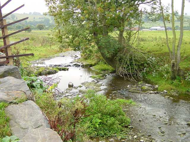 River Mule. Near its confluence with the River Severn at Abermule.